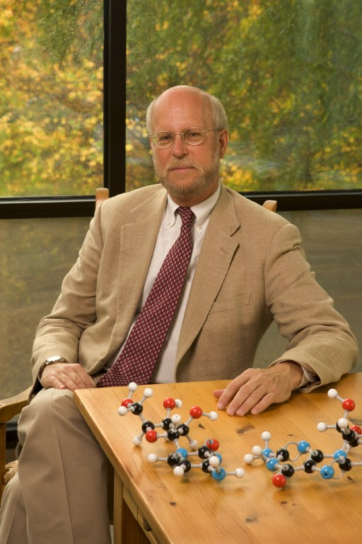 Photograph explicitly donated for Wikipedia purposes by H S Schaefer